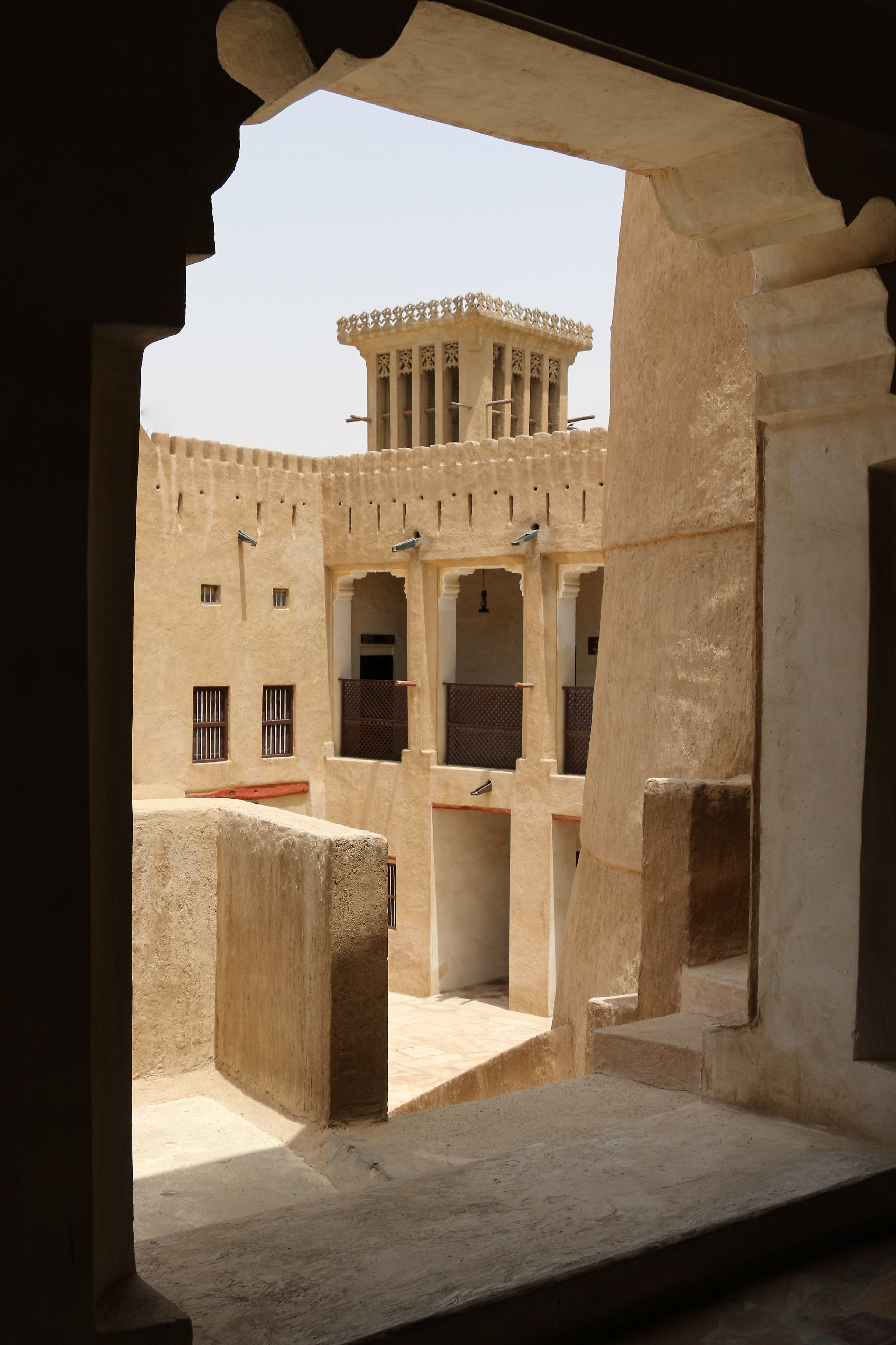 Traditional architecture with fabulous wind tunnel design